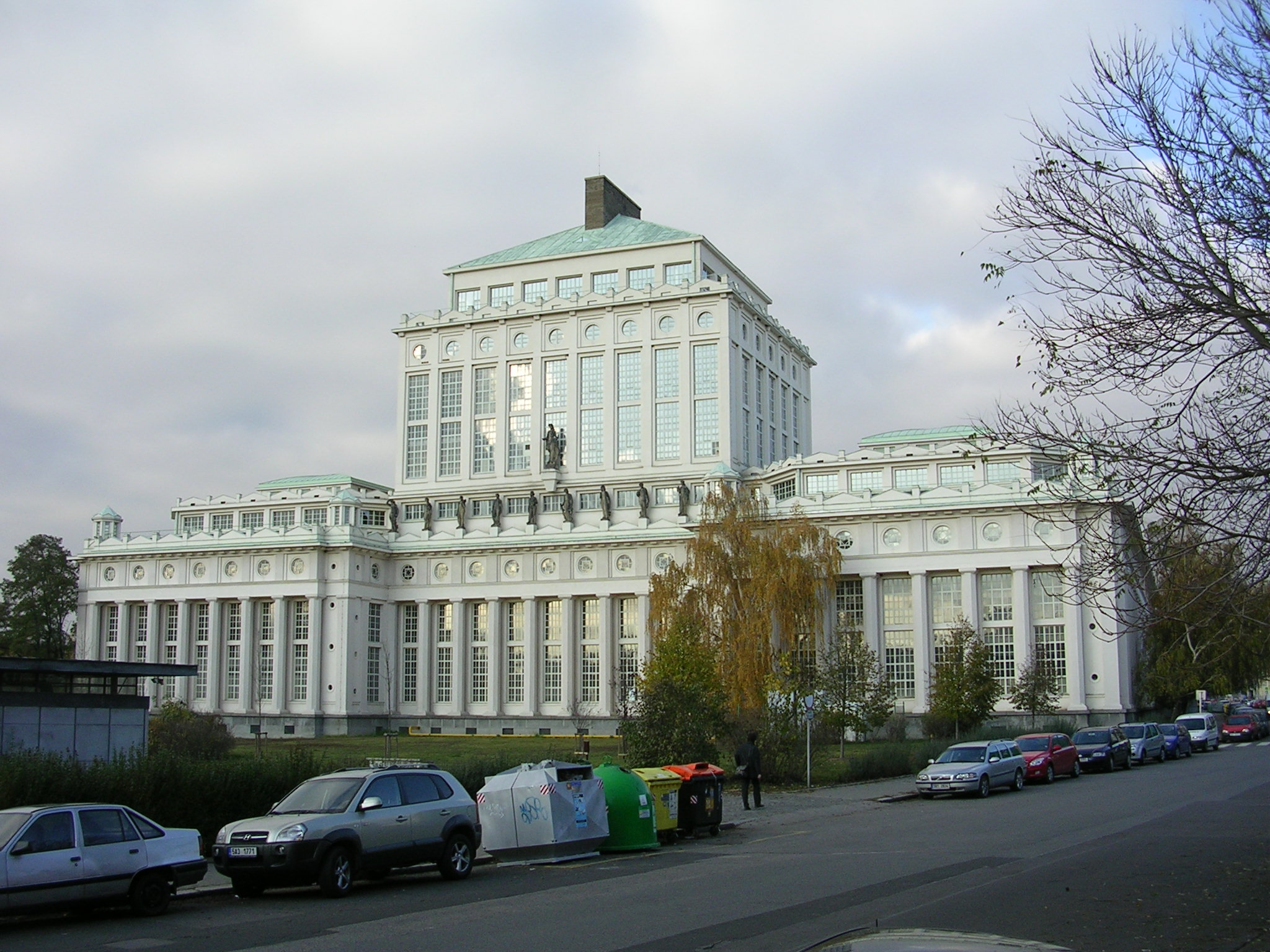 Podolí, Prague.